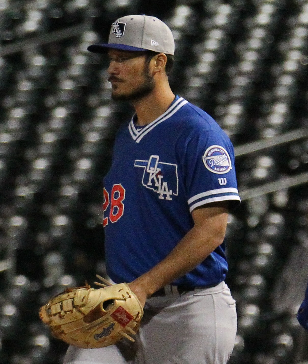 Cameron Perkins plays first base for the Oklahoma City Dodgers and Bubba Starling runs down the first base line for the Omaha Storm Chasers during a 2019 game at Werner Park in Nebraska